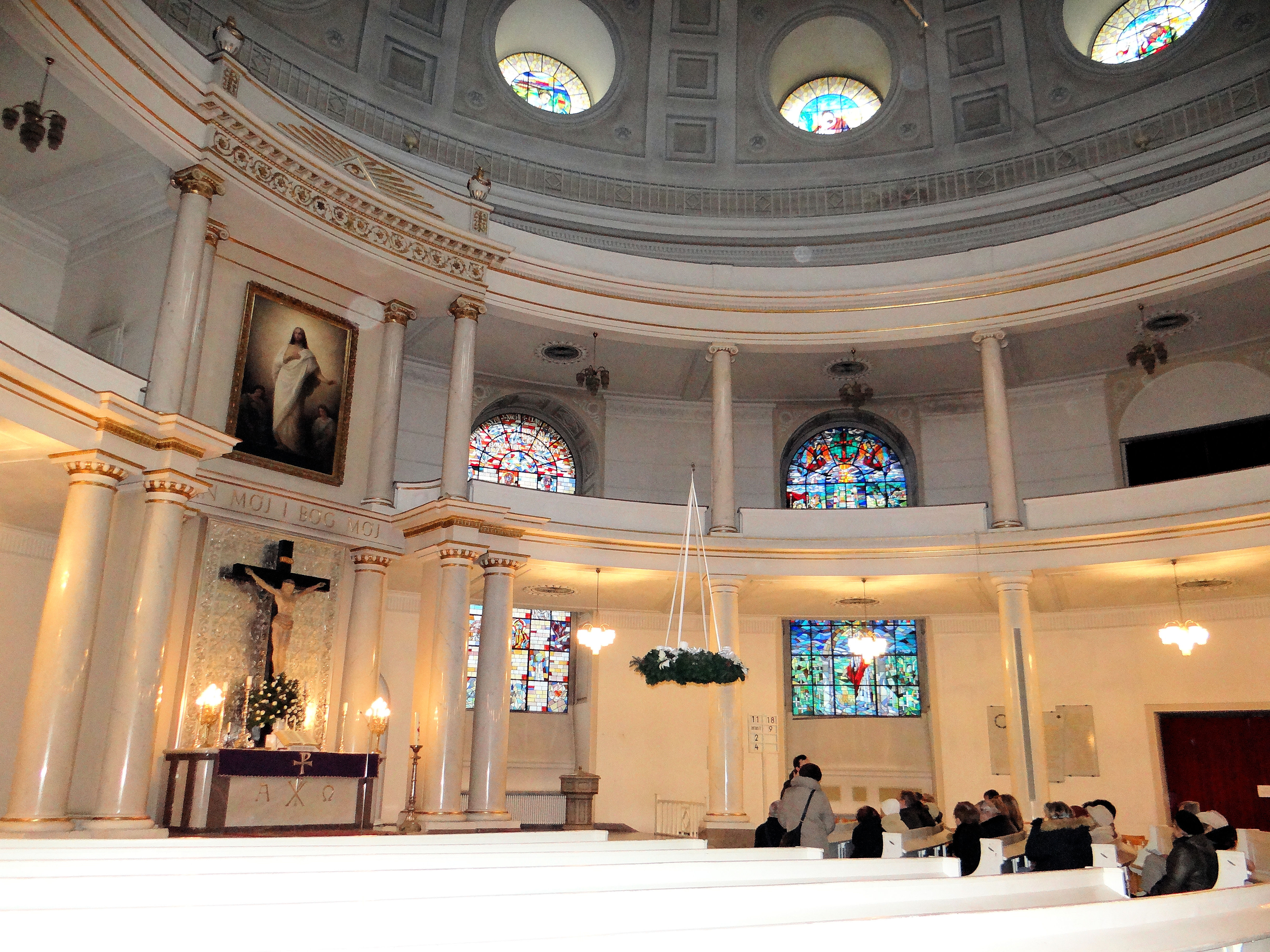 Altar of Holy Trinity Church in Warsaw (Lutheran)